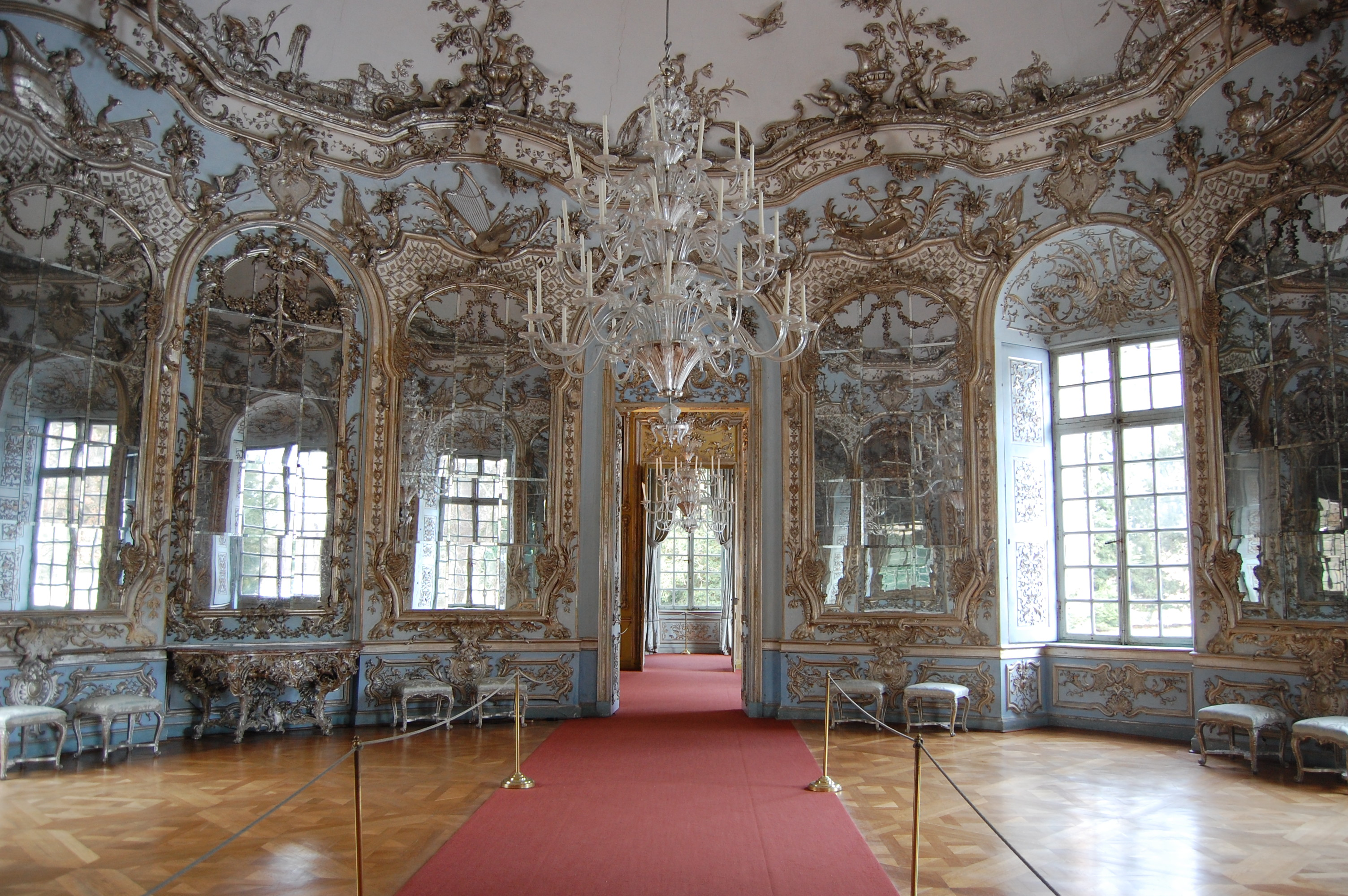 Amalienburg in the Garden of Nymphenburg Palace in Munich: hall of mirrors